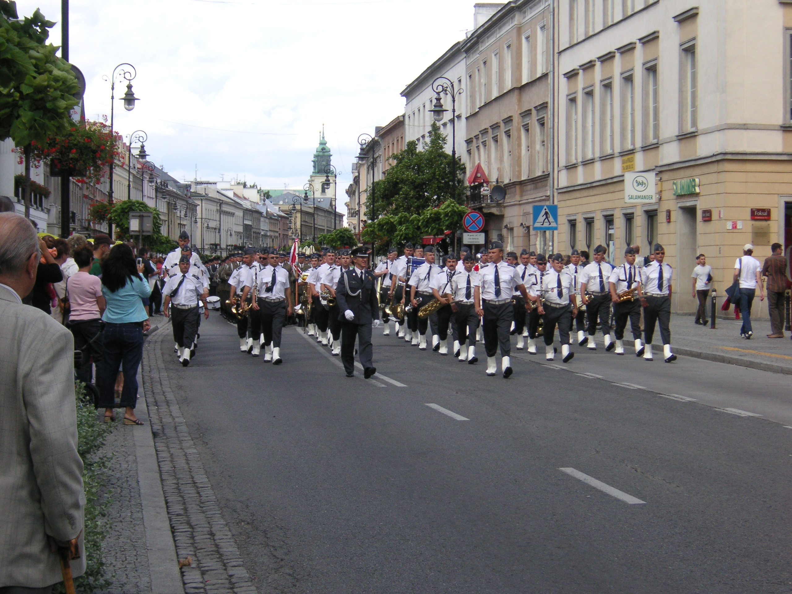 A military parade in Warsaw's Royal Road (Nowy Świat Street), commemorating the Feast of the Polish Army (August 15th) Representative orchestra of the Polish Army